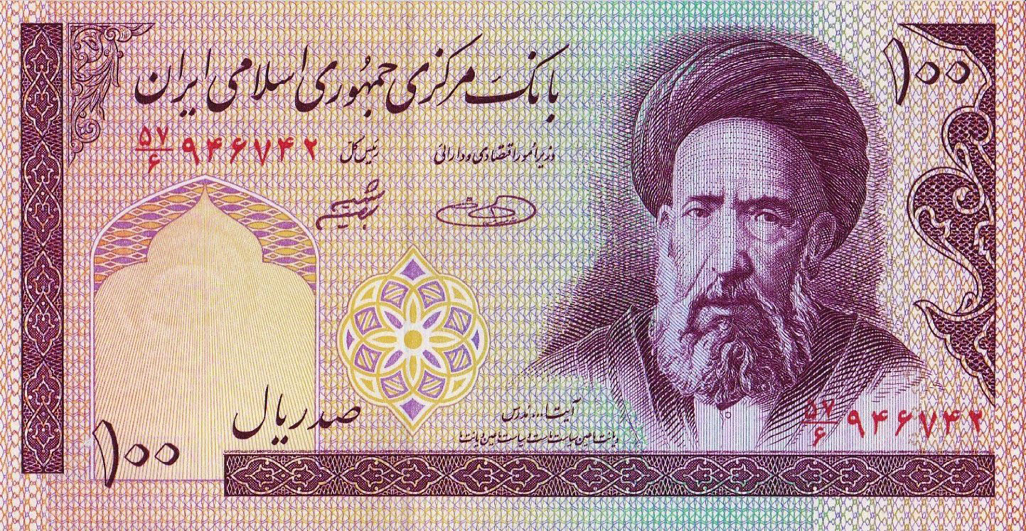 100 Rials Iranian Bank Note